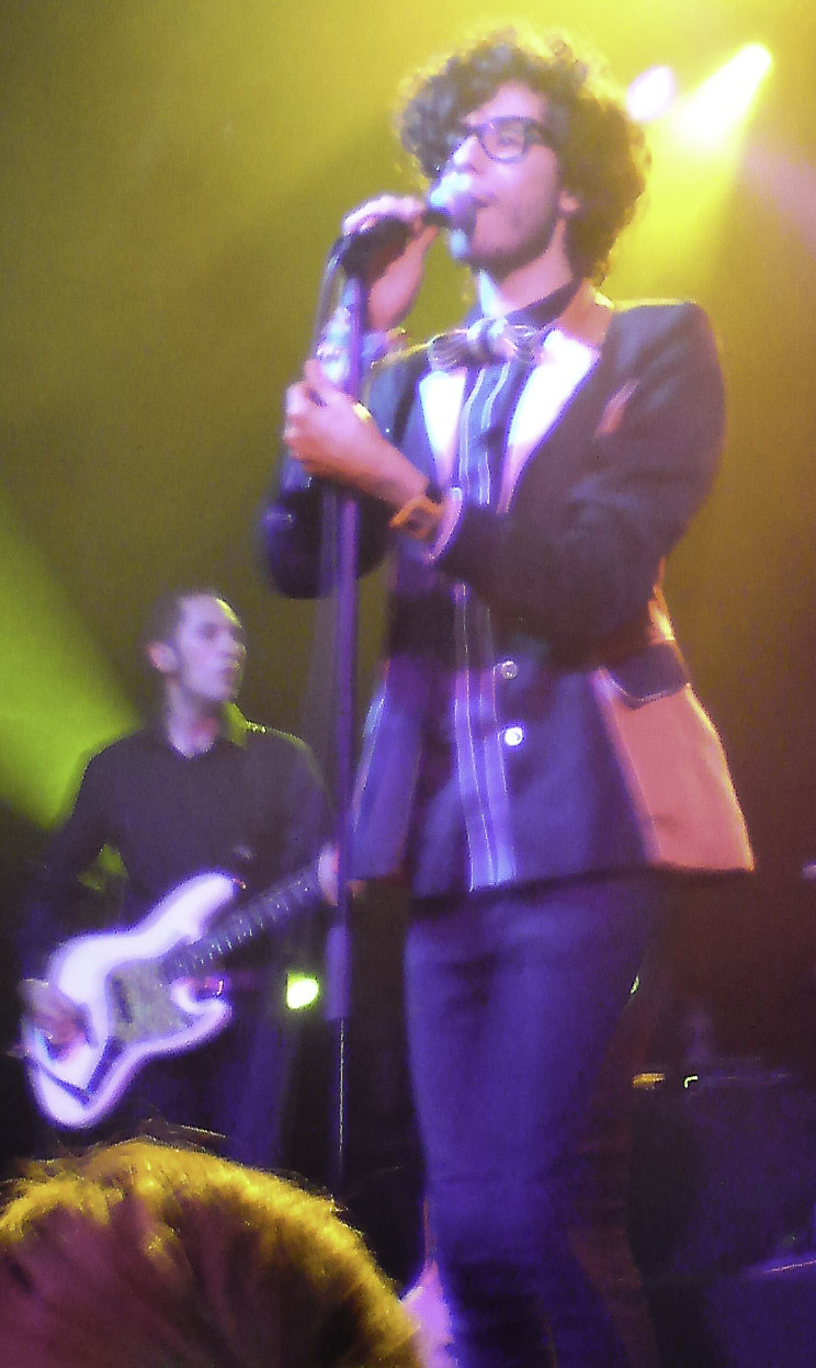 Sliimy in june 2009 in Paris